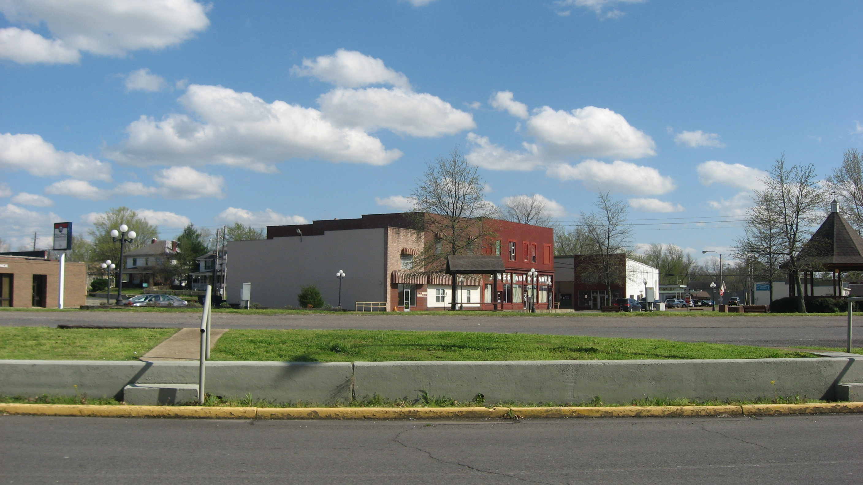 Overview of Commercial Avenue in downtown Fulton, Kentucky, United States. This area is part of the Fulton Downtown Historic District, a historic district that is listed on the National Register of Historic Places. The most distant buildings are across the state line in South Fulton, Tennessee; they are not included in the district.